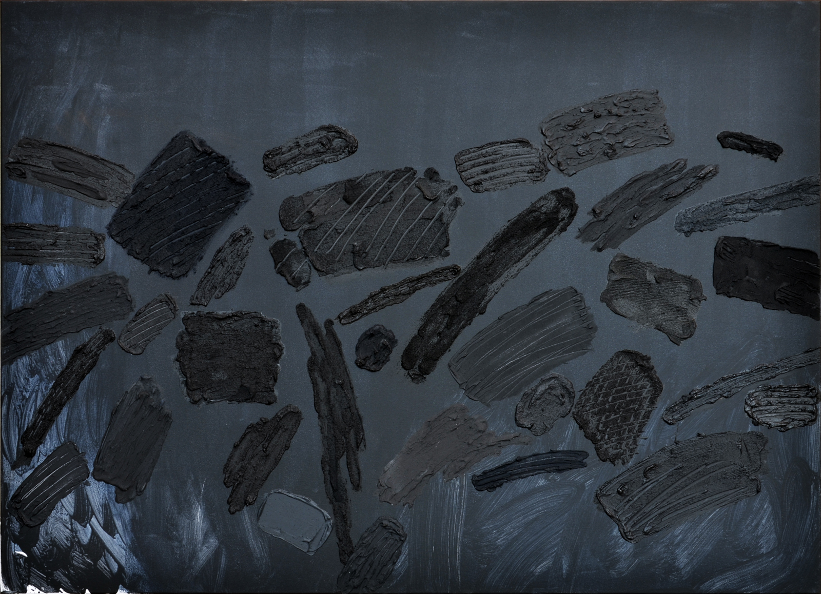 Sonia Jakuschewa, Dark Message I, 2015